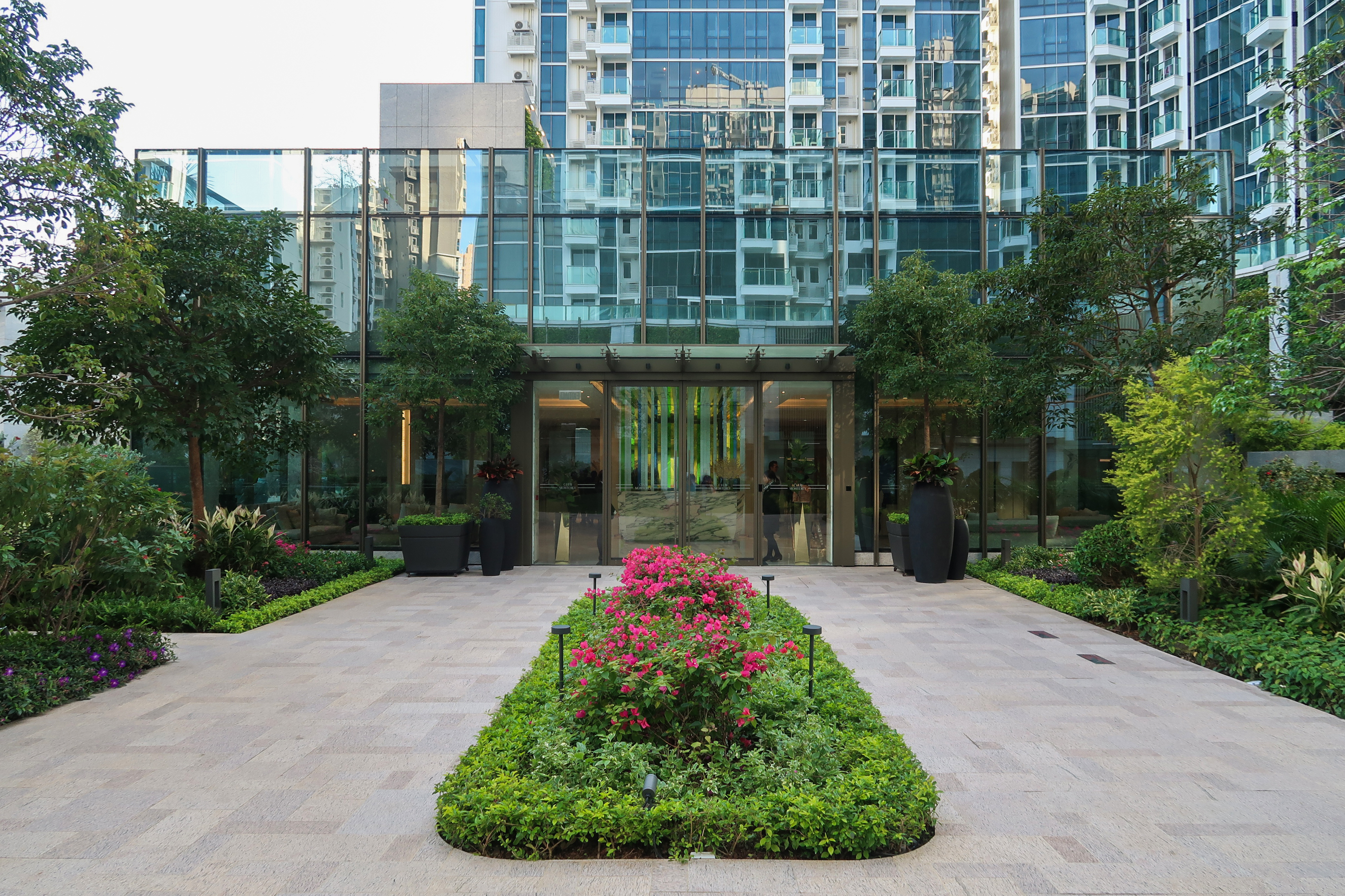 CLUB MONTEREY